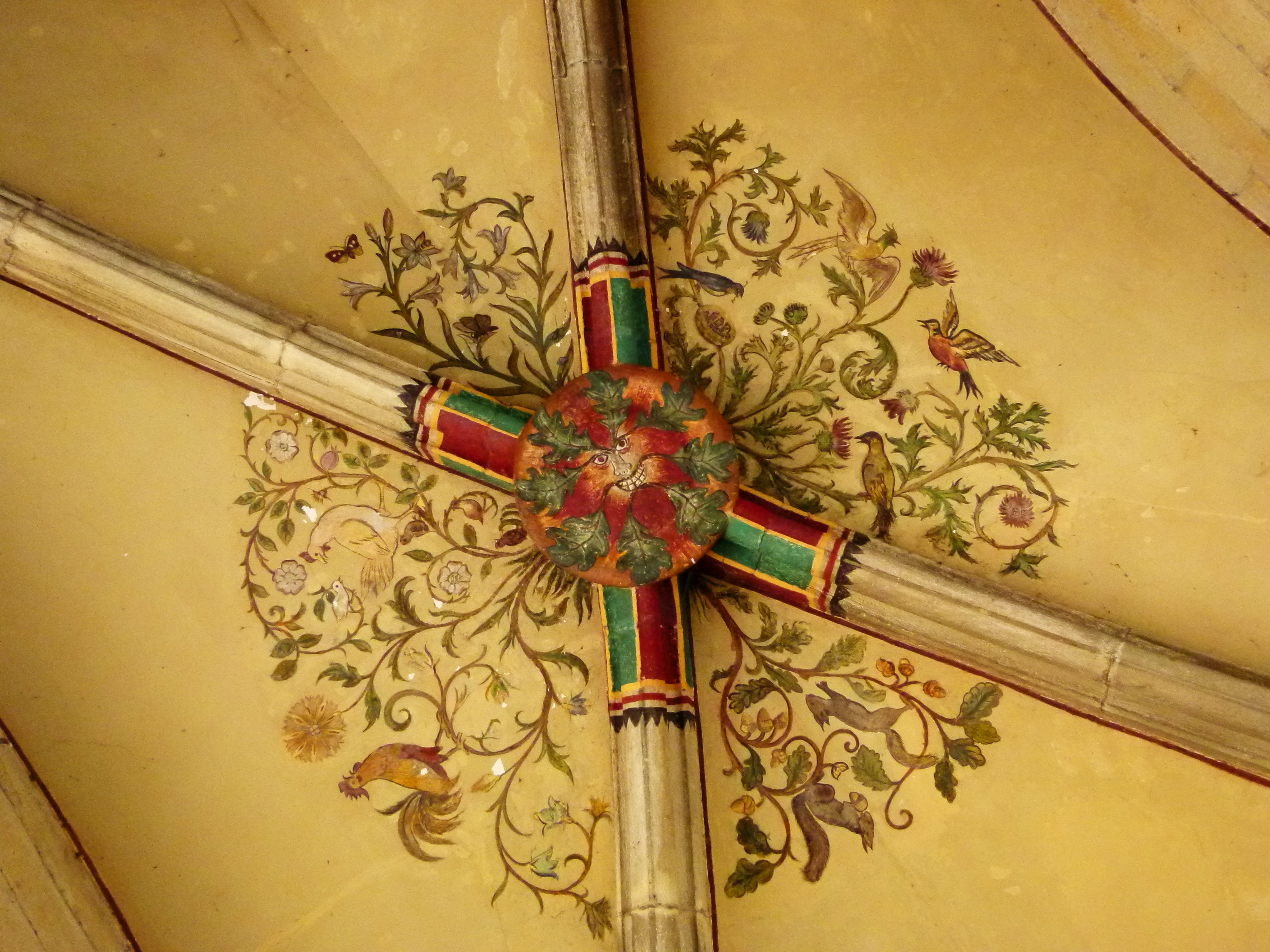 Under The Tower